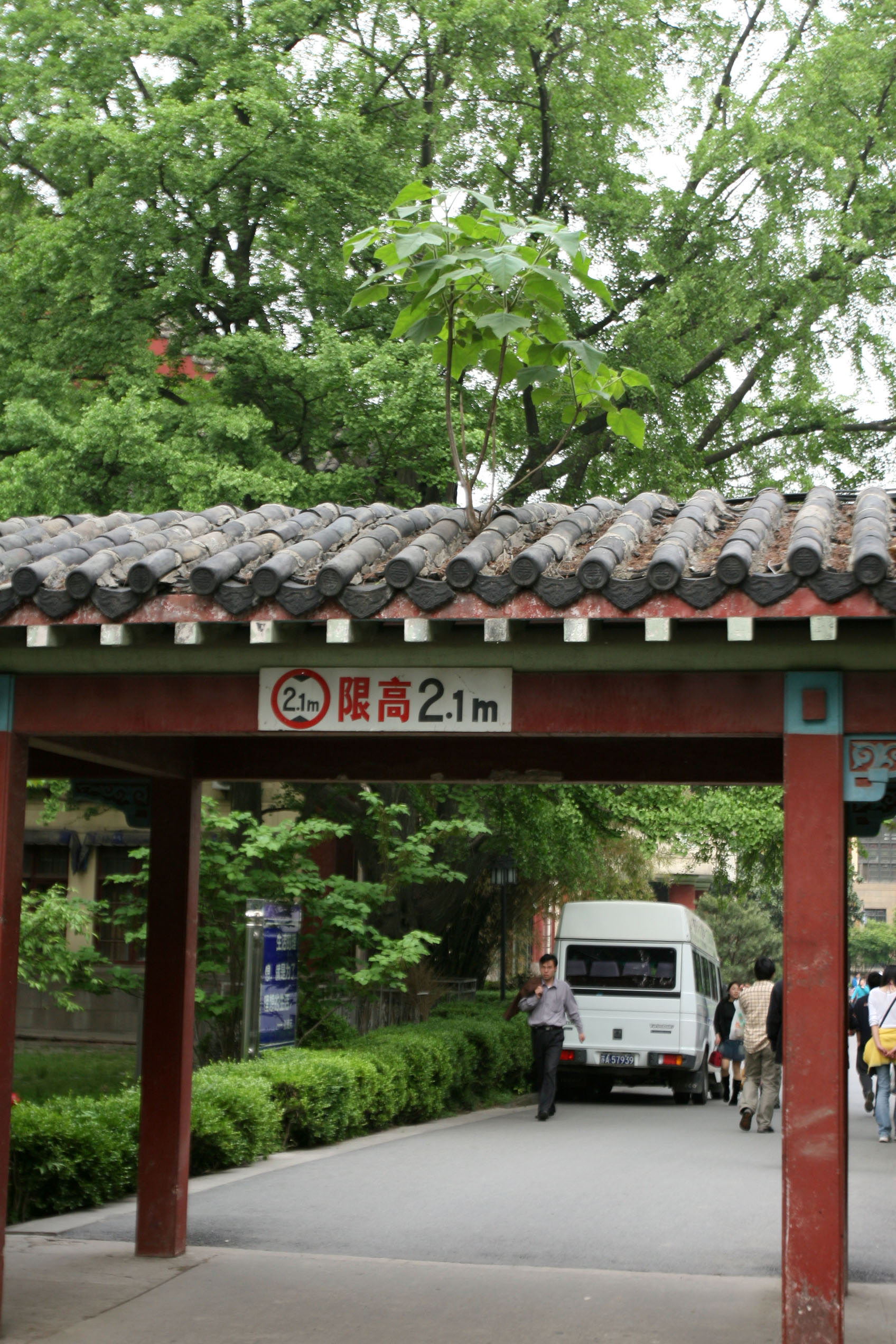 Nanjing Normal University;南京师范大学's road